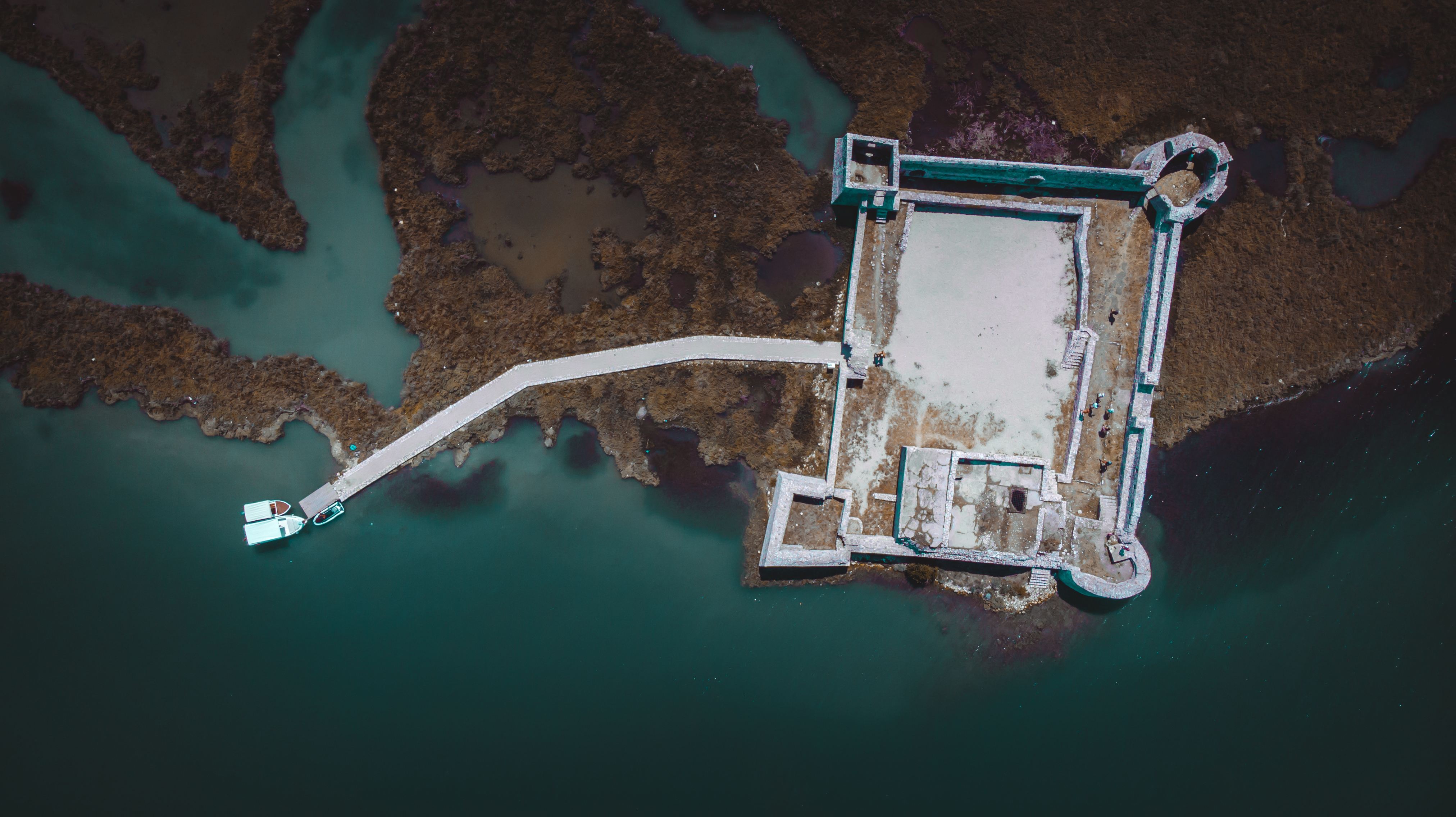 The cacle of Ali Pashe Tepelena in Butrint, Sarande, Albania